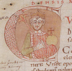 Conrad I, Holy Roman Emperor